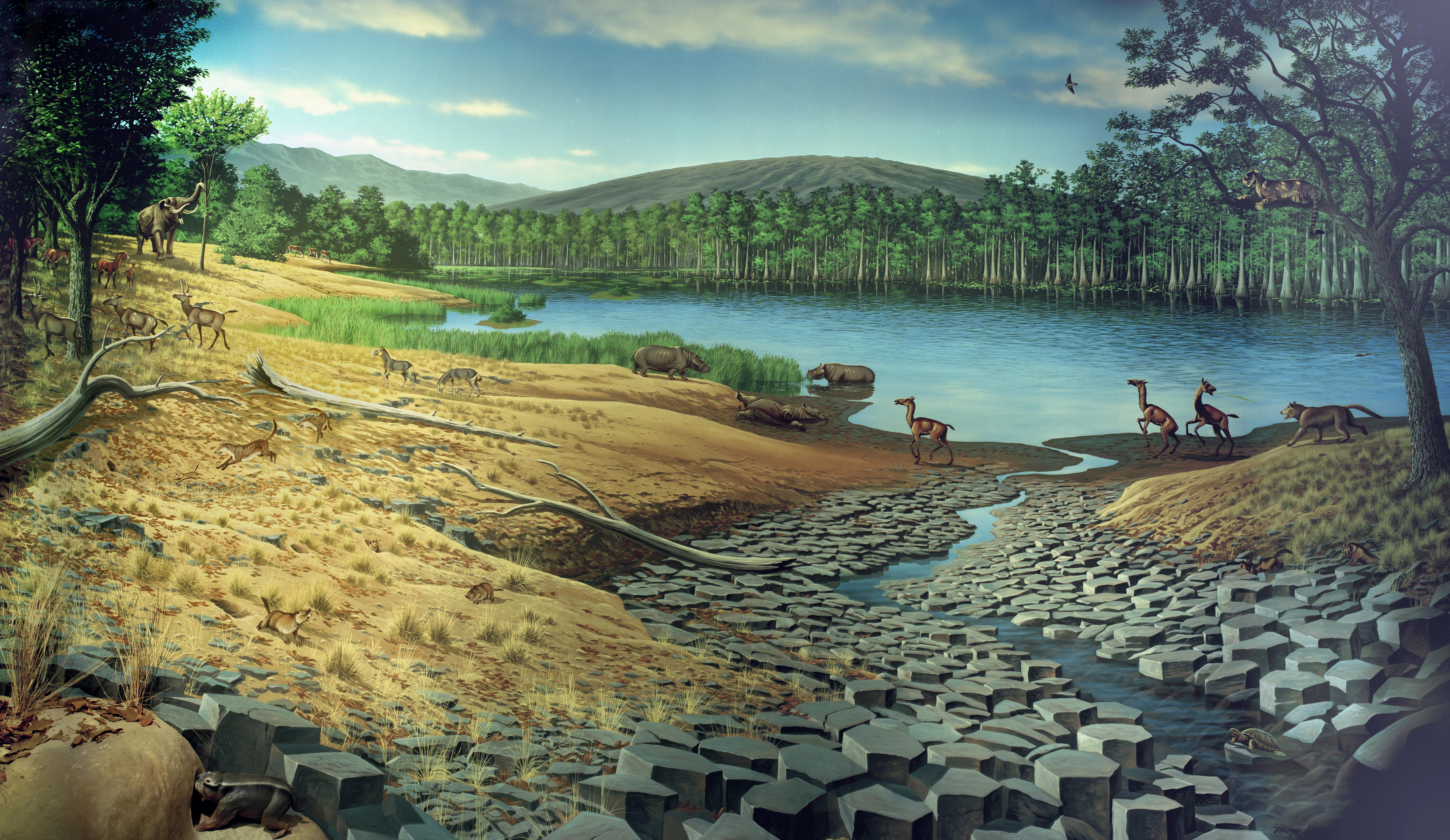 The 16-13 million year old Mascall assemblage caps the Picture Gorge Basalts with a sequence of ashy layers and paleosols (fossilized soils). It records a gradual yet influential climate change event that took place over millions of years, the mid-Miocene climatic optimum. Paleosol evidence from the Mascall assemblage indicates a period where forests returned, outcompeting the sagebrush steppe of the mid-Miocene. These wooded environments were similar to modern temperate forests found in the Eastern United States, filled with swamp cypress along bodies of water, deciduous forests in the lowlands, and coniferous forests in upland habitats. Though forests dominated the area, the decline in shrub land allowed for the growth of short sod grasslands. Grazing animals lived alongside the more common, larger mammals that dominate the Mascall fauna. Dominant Fossils Found in this Assemblage: Mylagaulus (rodent) Tephrocyon (bear-dog) Dromomeryx (giraffe-deer, hooved animal) Merychippus (three-toed horse) Gomphotherium (trunked, four tusked elephant relative) Parahippus (three toed horse) Archaeohippus (three toed horse) Taxodium (Swamp cypress) Aphelops (rhino) Miolabis (camel) Pseudaelurus (panther relative, tree climbing cat) Amphicyon (bear-dog) Mixed forest (Celtis, Liquidambar, Quercus, Ulmus, Acer, Fagus, etc.) Leptarctus (weasel) Clemmys (turtle) Falcon, unidentified Dipoides (beaver relative)